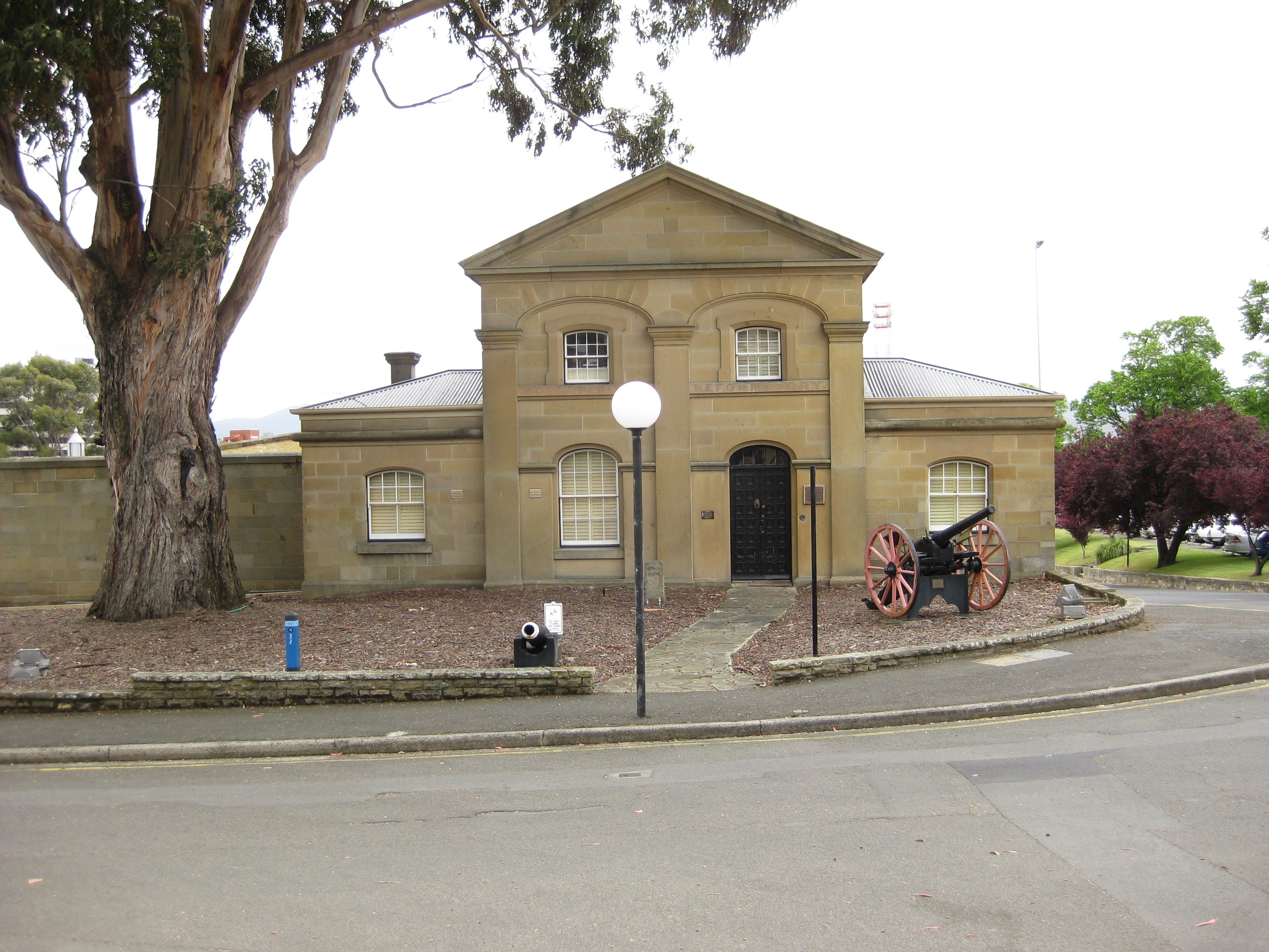 The building which houses the Military Museum of Tasmania at Anglesea Barracks